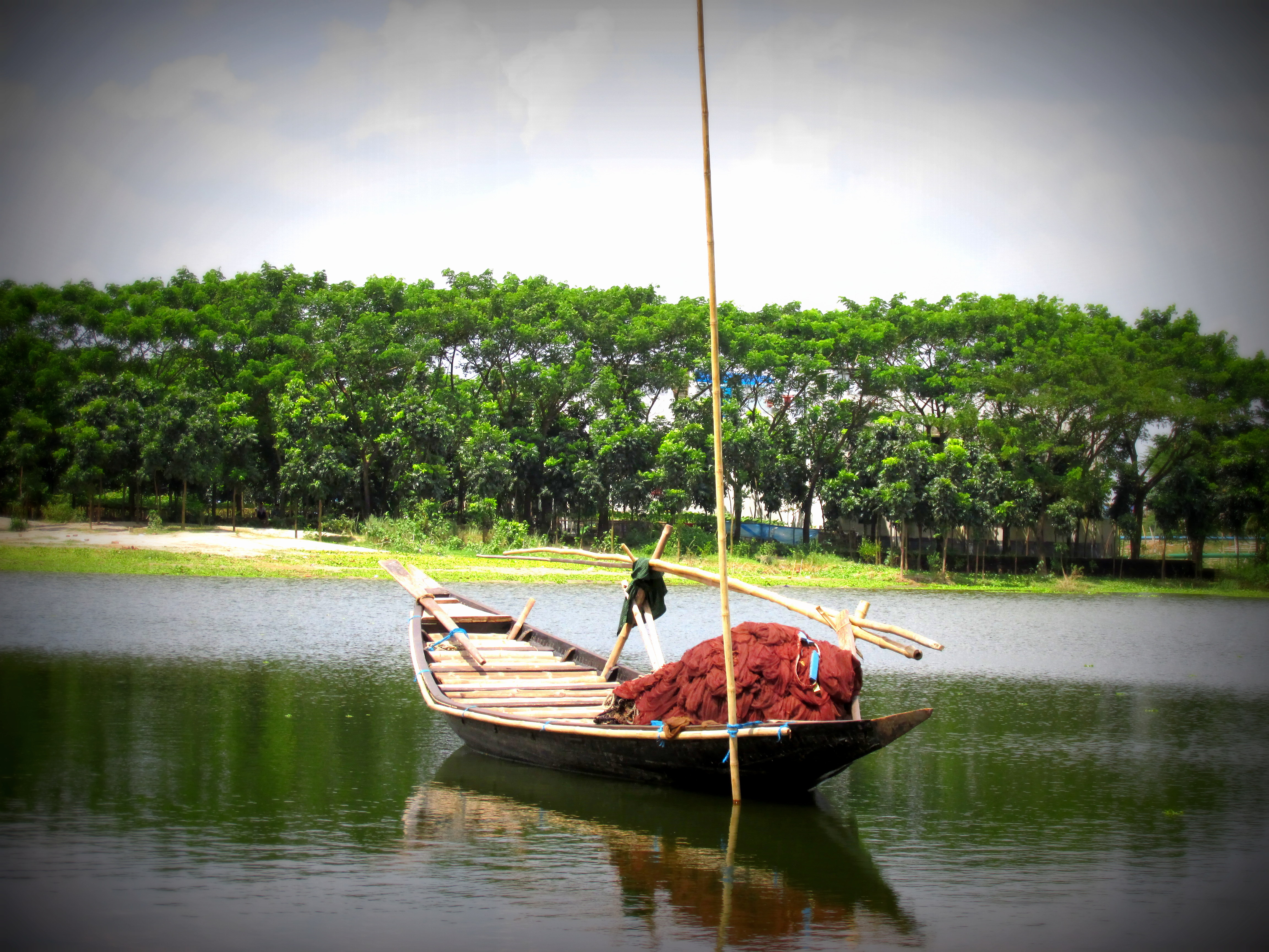 This photo is taken from Turag River, Mirpur.